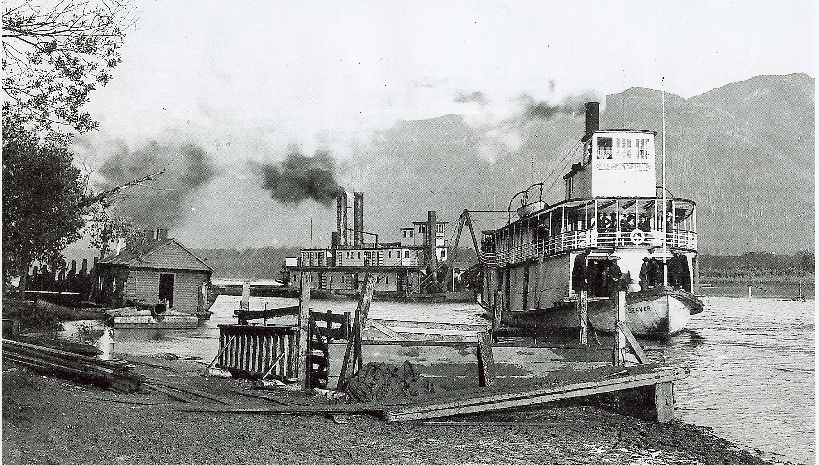 Paddlewheelers at Chilliwack Landing near the present day end of Wellington Street. Paddlewheeler in the foreground is the Beaver